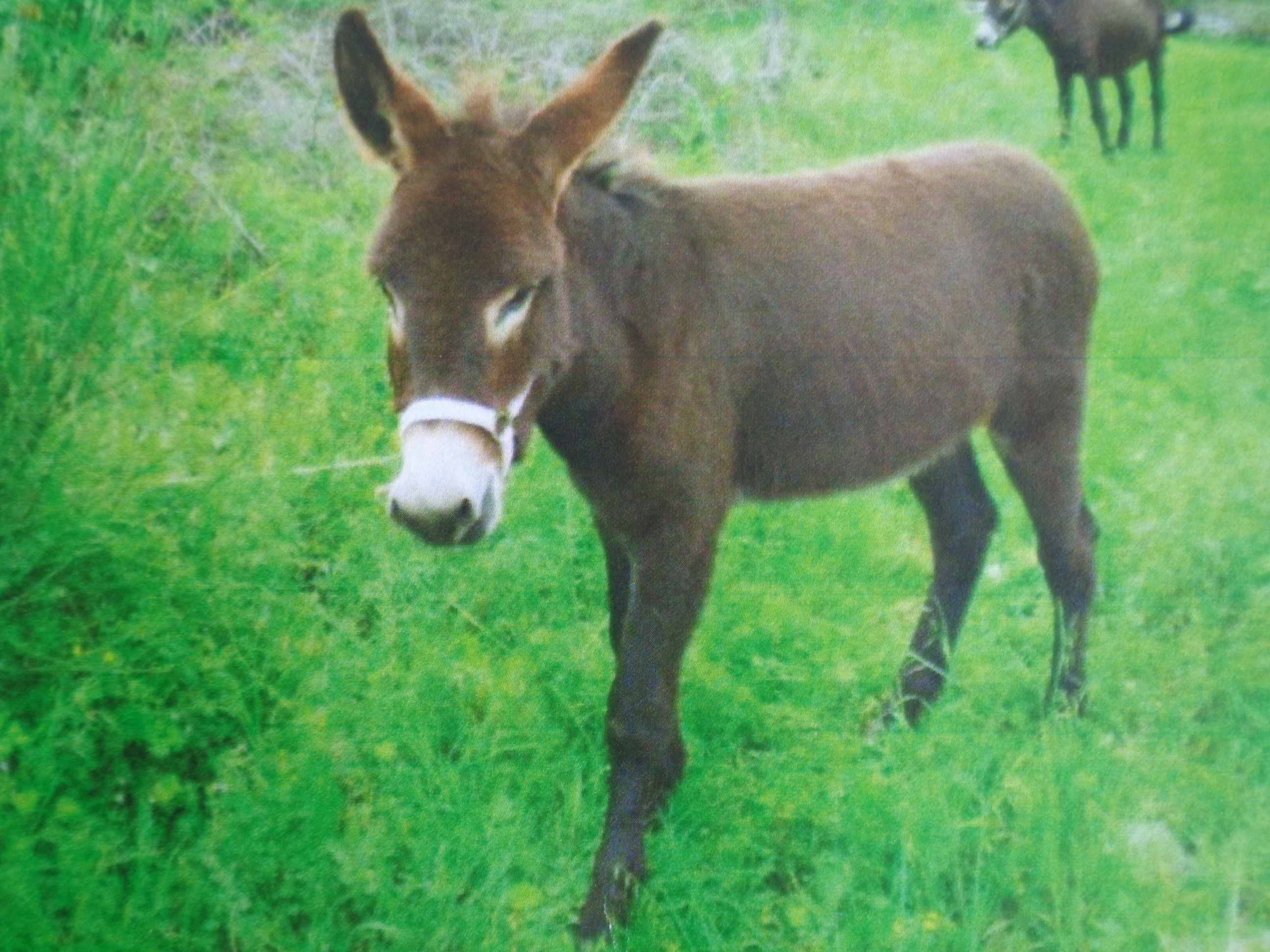 Istrian donkey breed, Croatia